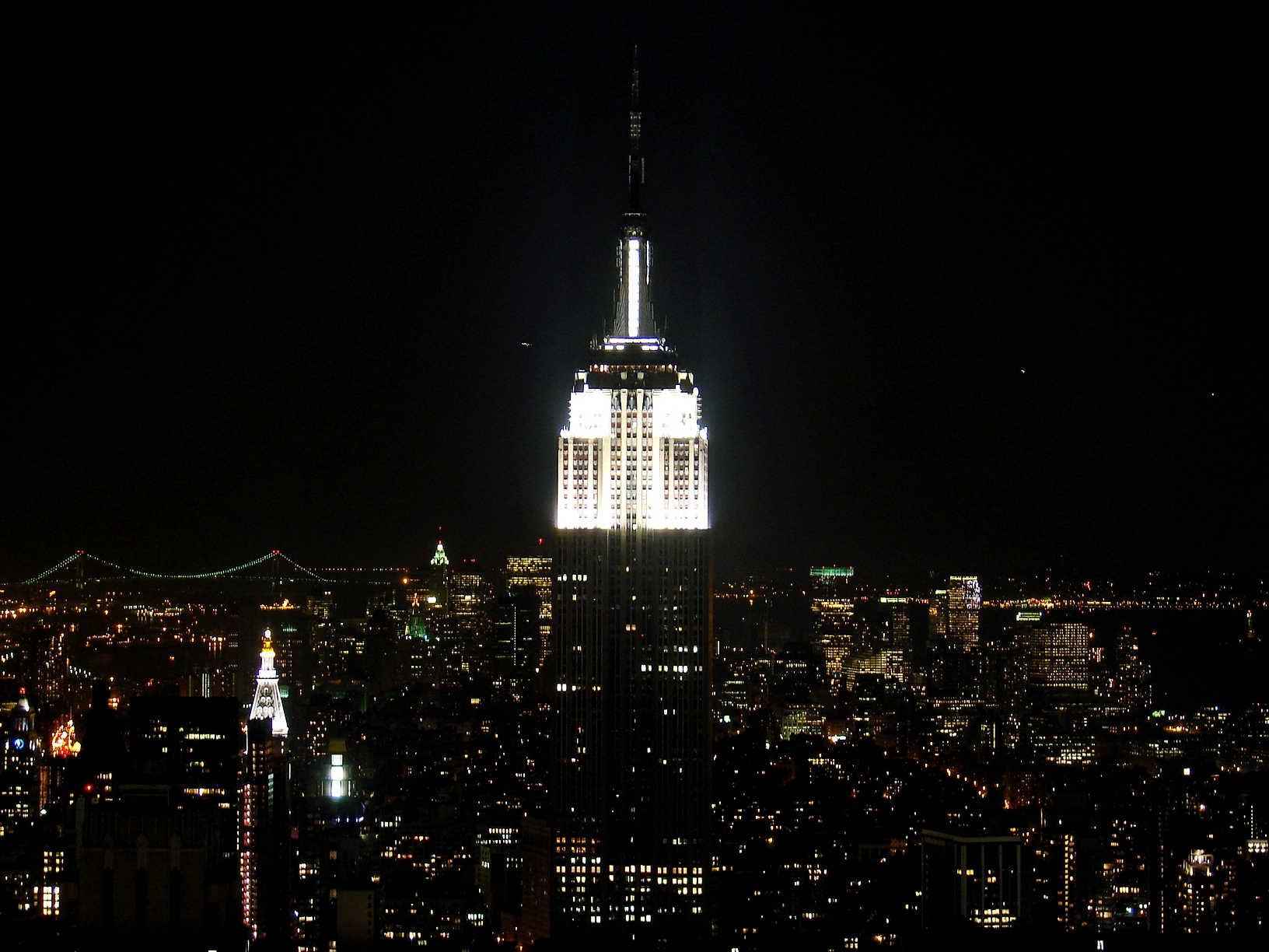 Bright lights night view of New York City, featuring the Empire State Building lit up in all white. The Flickr page ... but new york cares features the lyrics to NYC (song), copyrighted by Paul Banks[1].